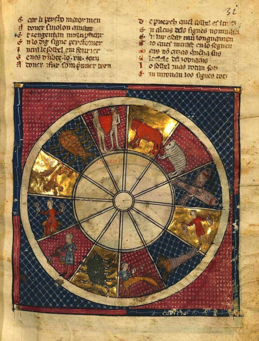 A picture representing the zodiac, taken from the Breviari d'Amor